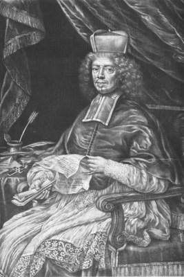 Portrait of Leopold Karl Cardinal von Kollonitsch